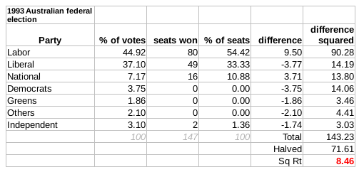 Gallagher Index, 1993 Australian Federal Election